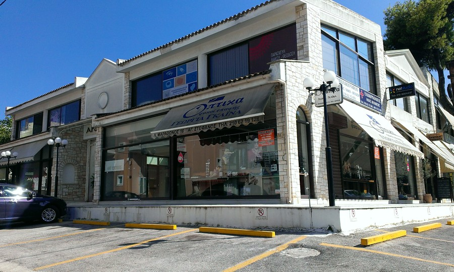 arxitektoniki